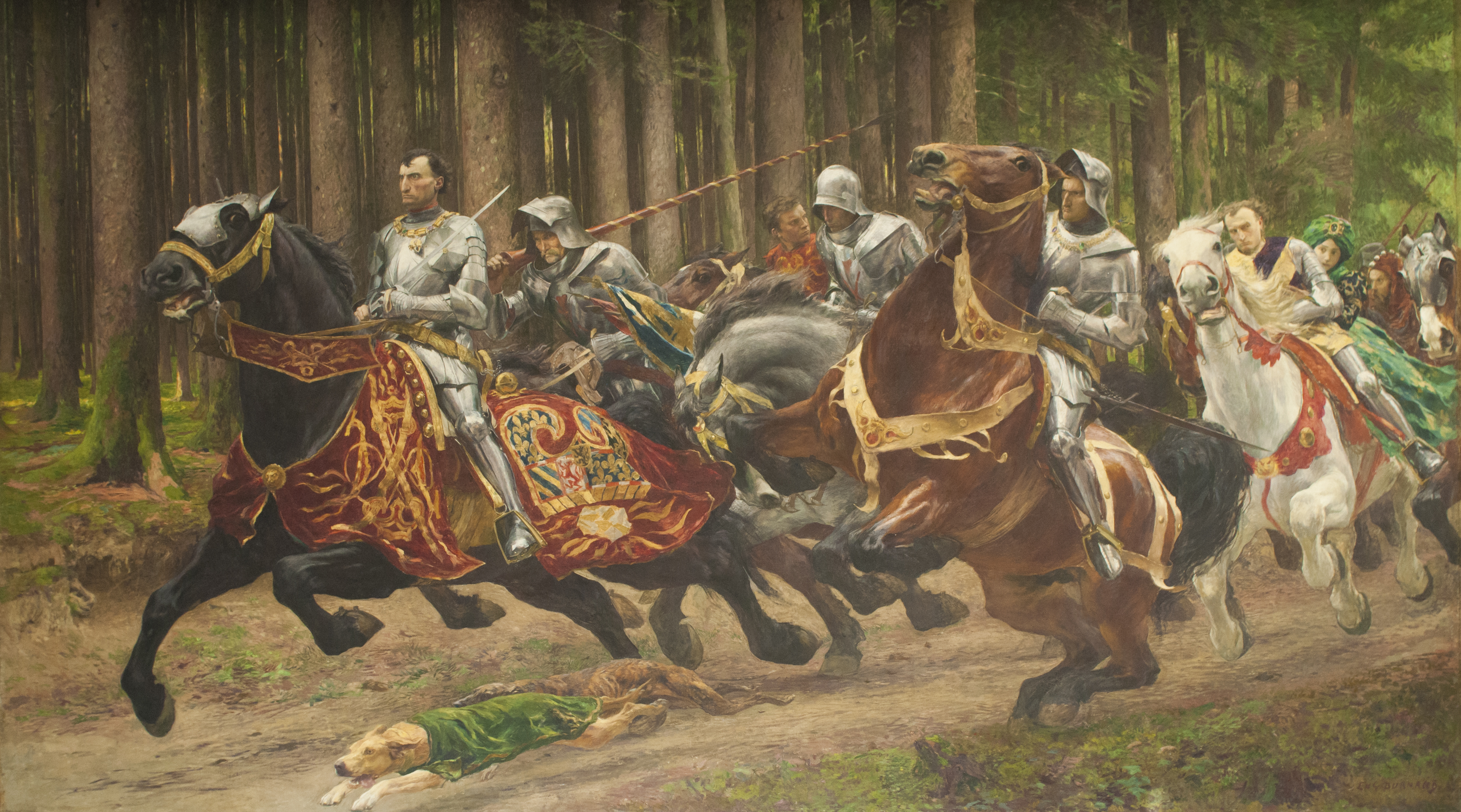 La Fuite de Charles le Téméraire, The Flight of Charles the Bold, 318 x 538 cm, Moudon, musée Eugène Burnand.